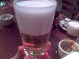 A cup of chop, half pressure (my pic)